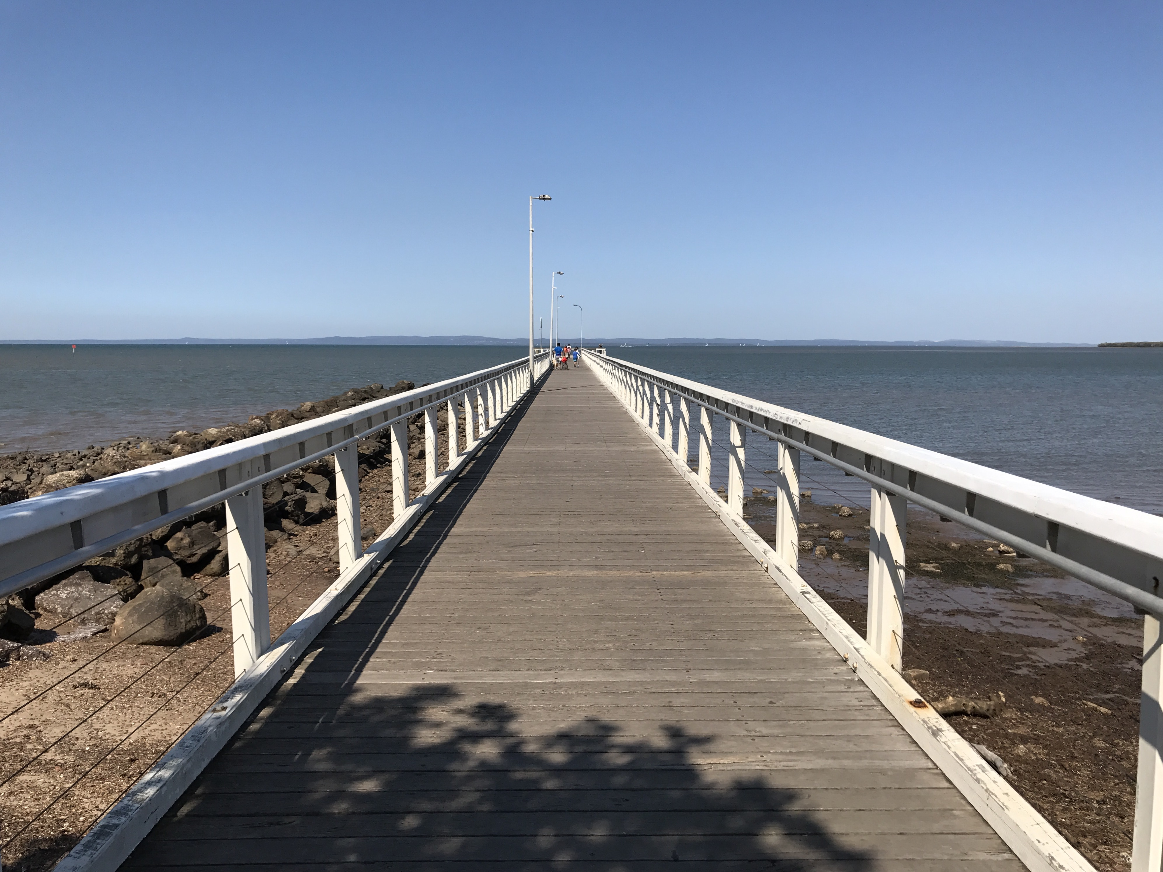 Wellington Point Pier, Queensland